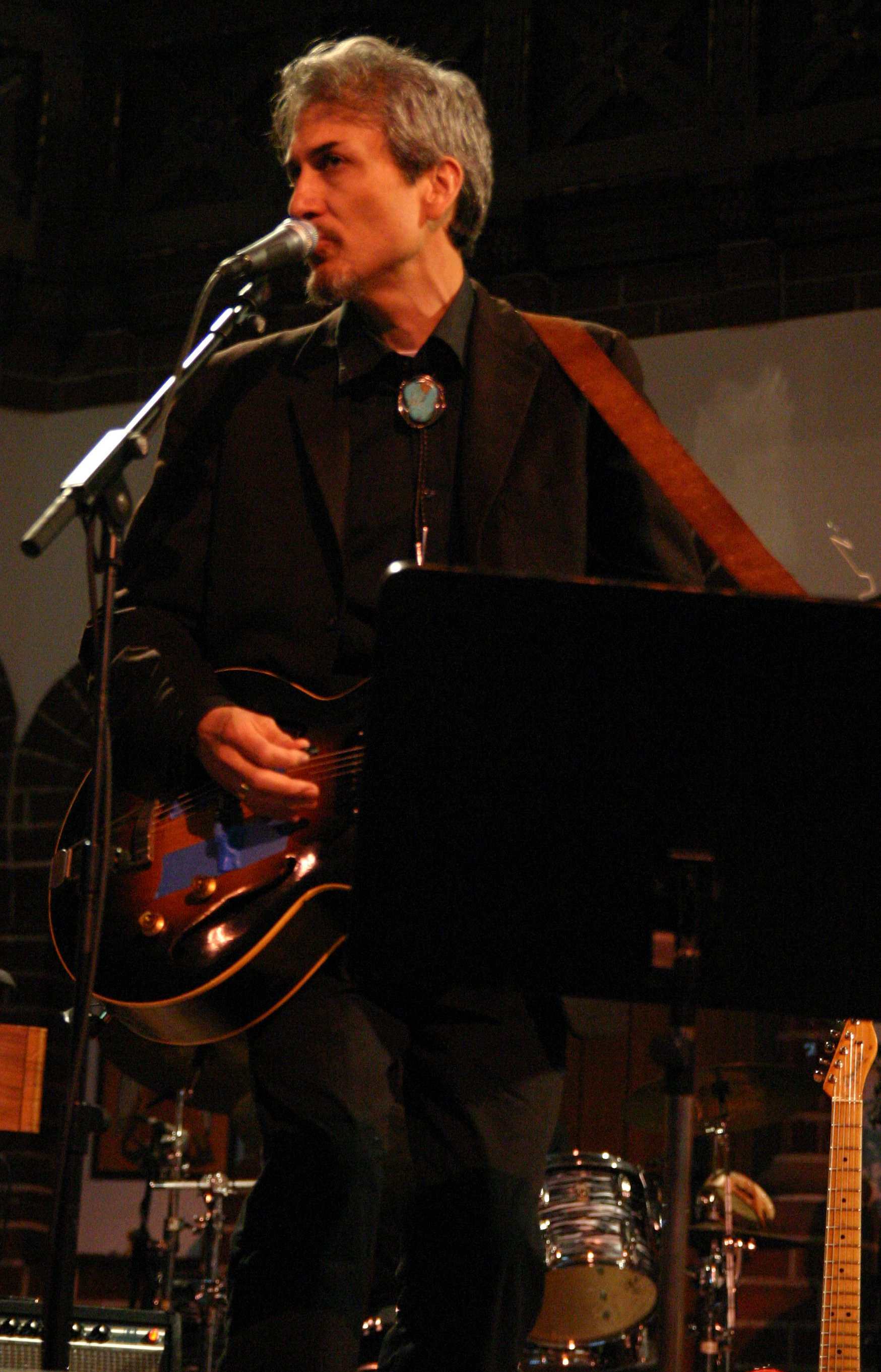 Howe Gelb of Giant Sand, from Tucson, Arizona